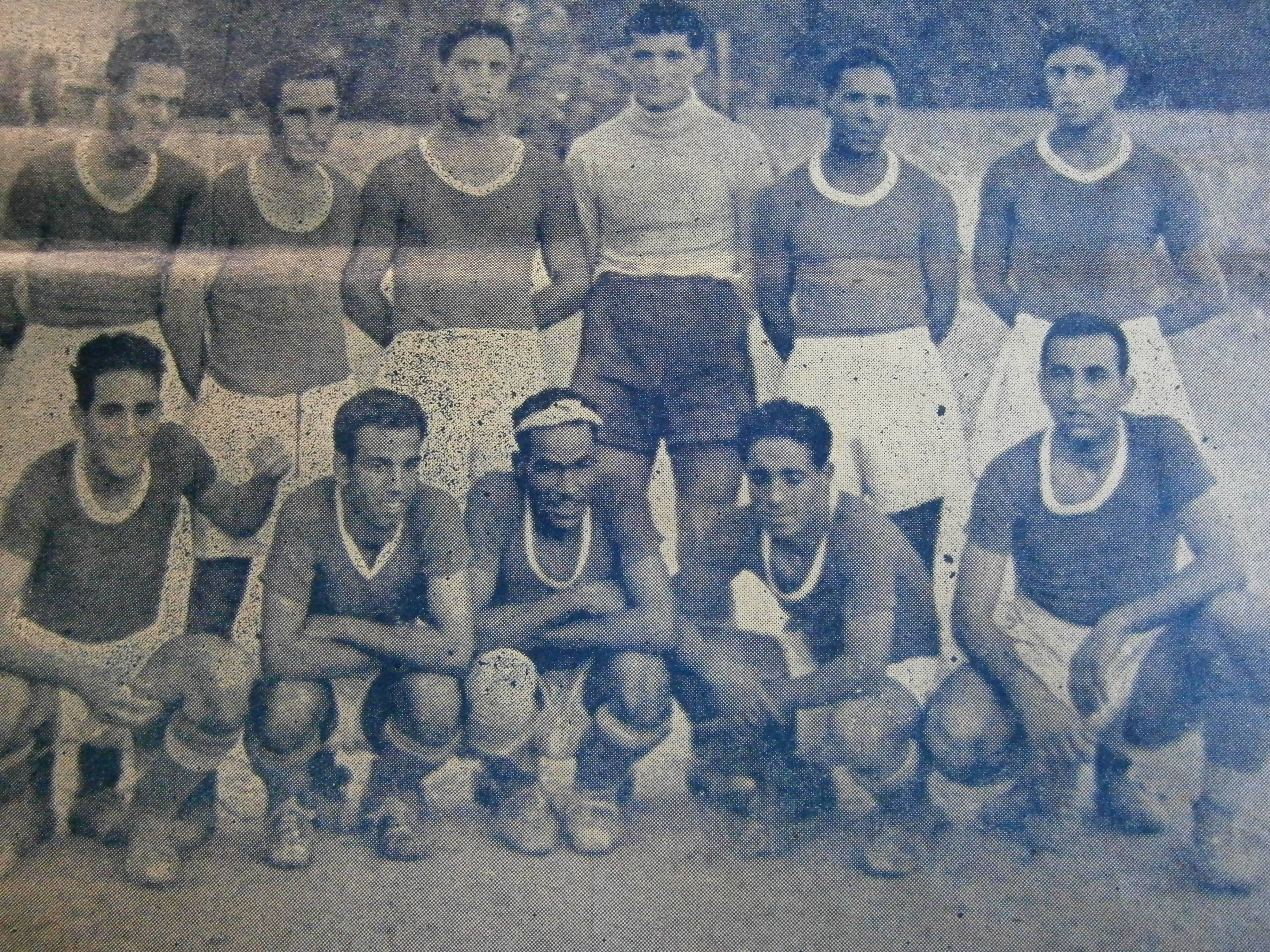 This is a picture of Widad Atlhétic Casablanca soccer team in 1948.